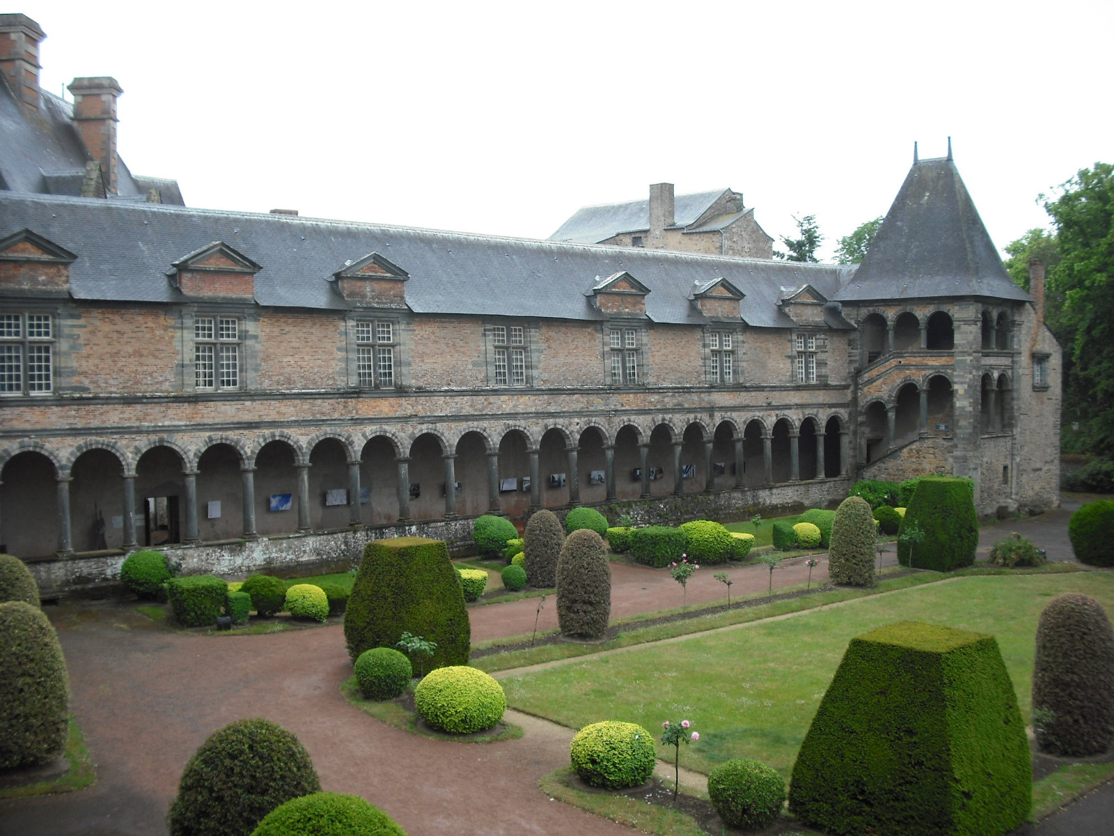 Renaissance gallery, château of Châteaubriant, France.